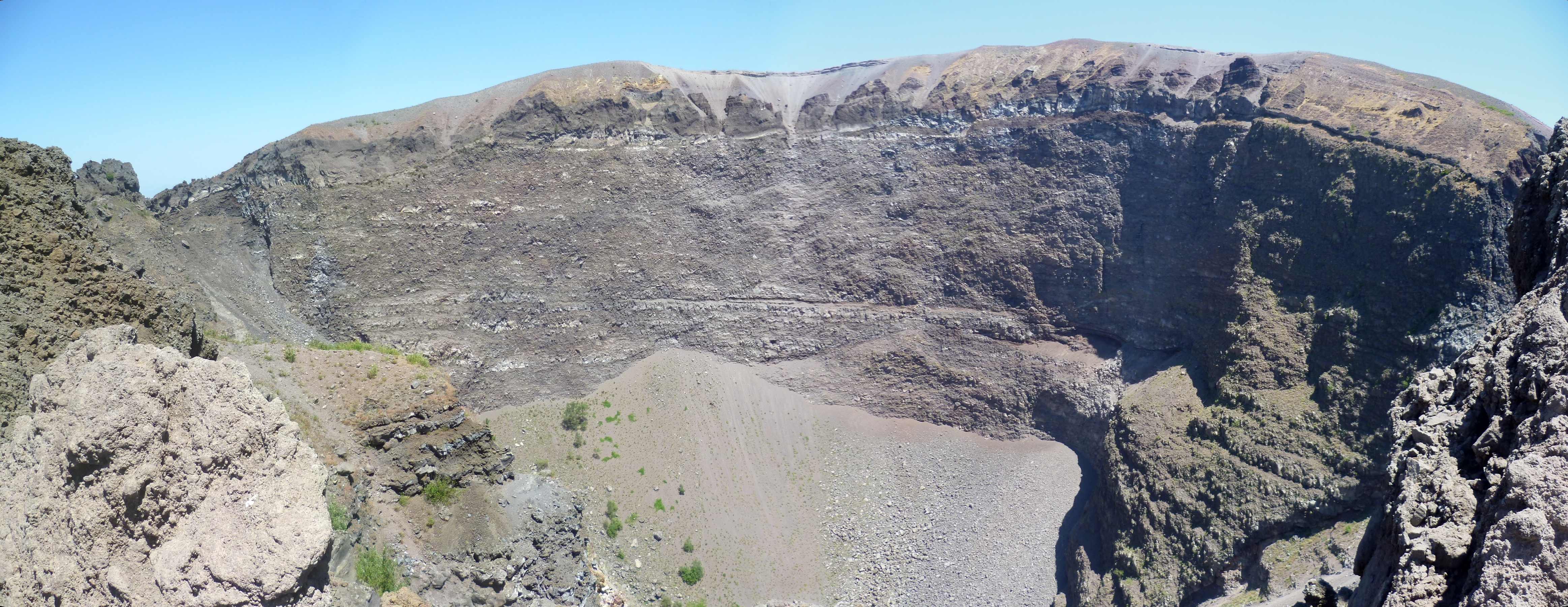 The crater of Vesuvius in 2012 (composite photograph)